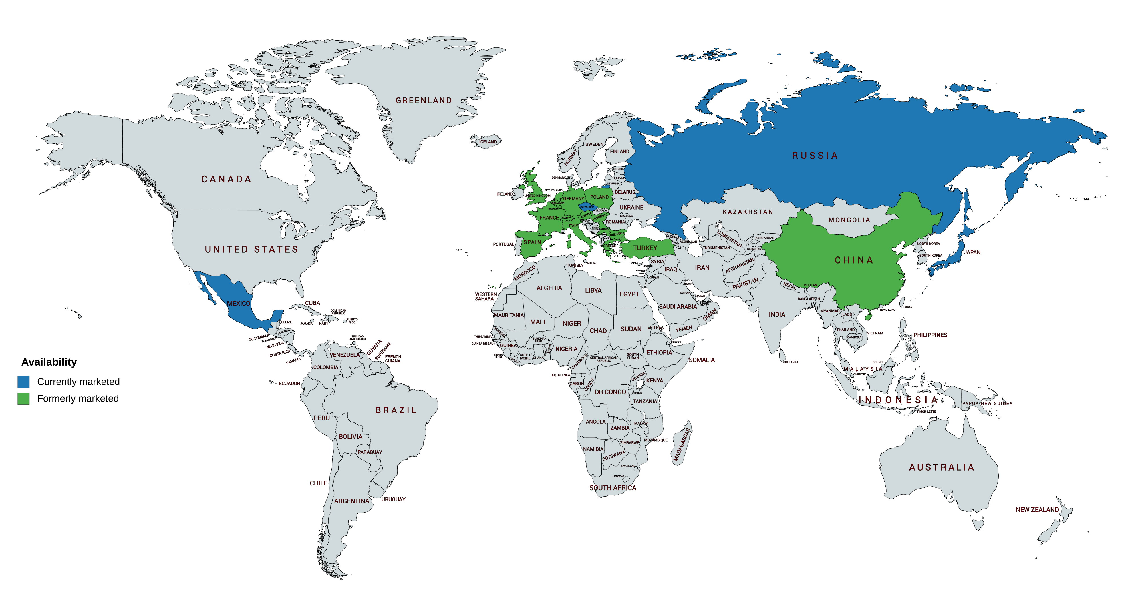 Current and former availability of gestonorone caproate as of March 2018.